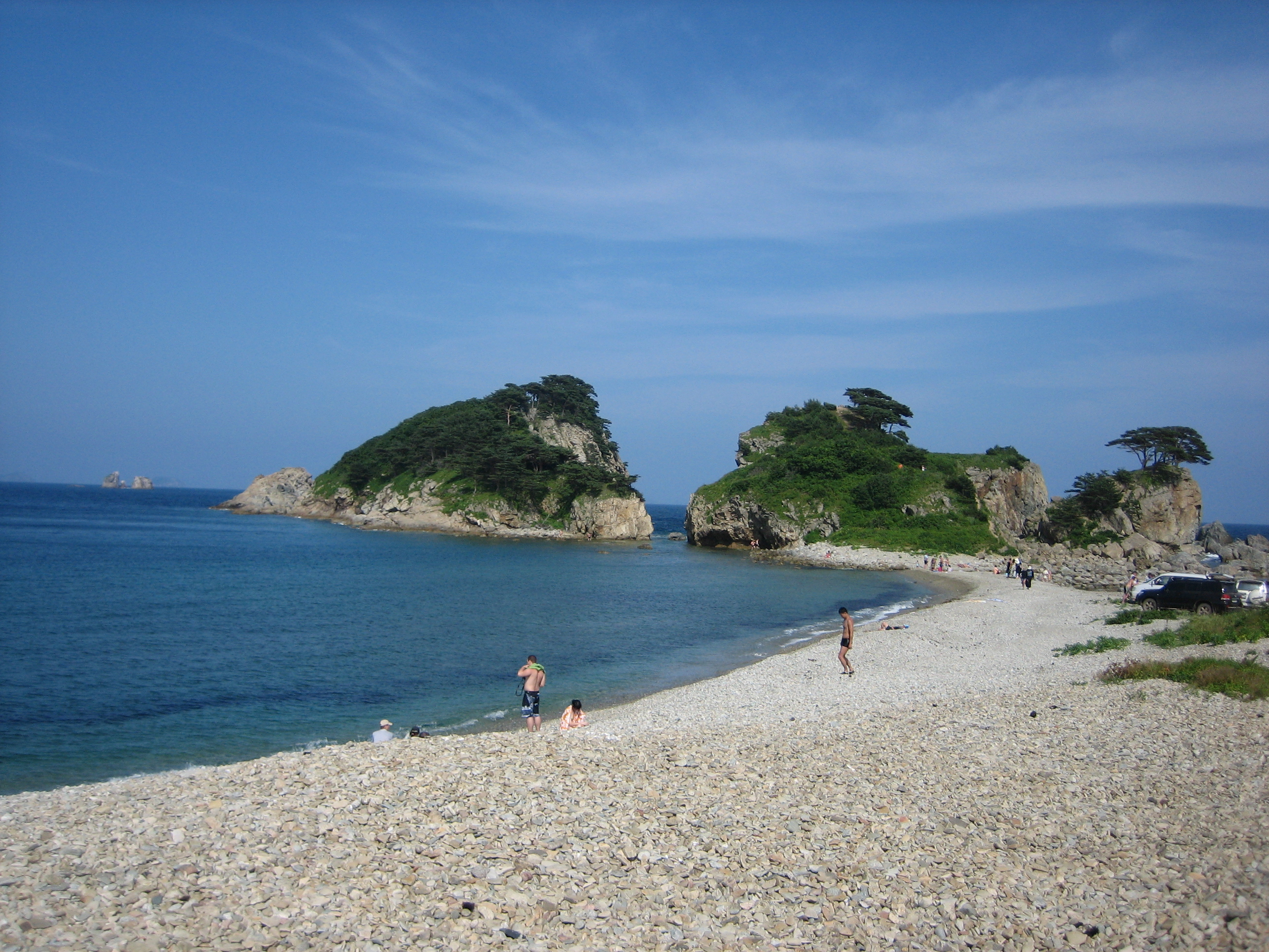 Beach in Primorsky Krai, Russia